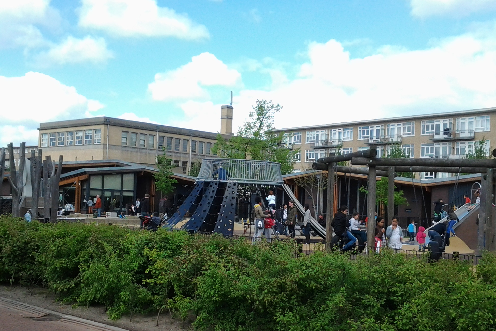 Wachterliedplantsoen, small park in Amsterdam-West, with playground